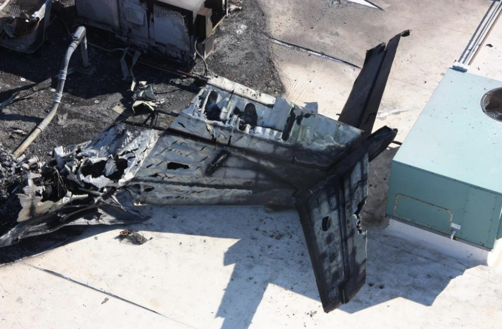 A Beechcraft 200 King Air was destroyed when it impacted an airport building at Wichita-Mid-Continent Airport, KS (ICT) during takeoff. A fire erupted.